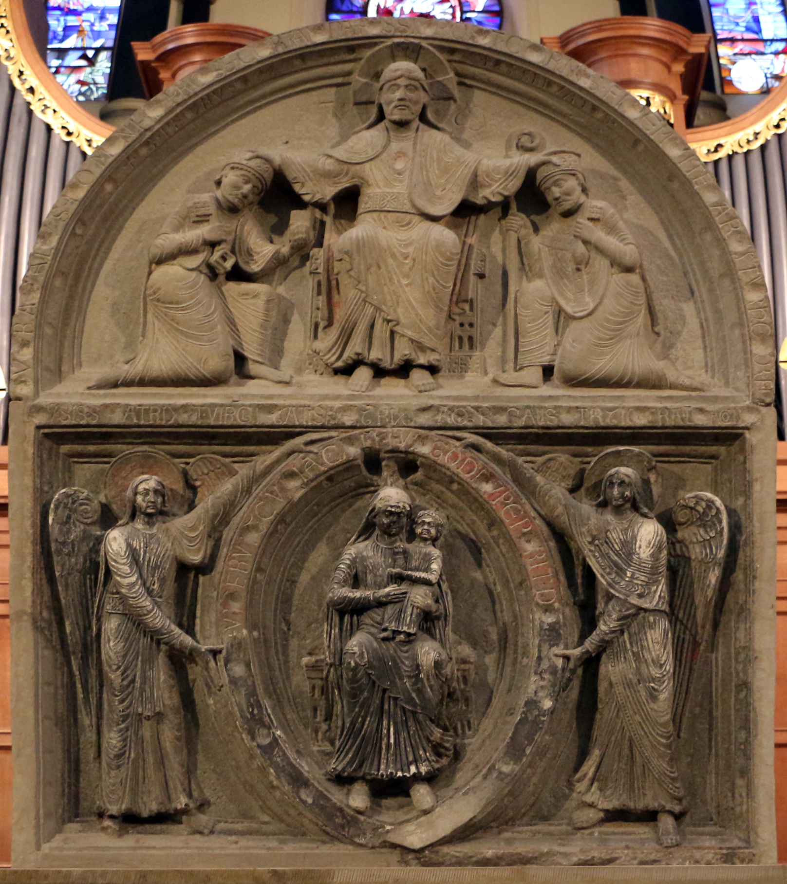 Sint-Servaasbasiliek (Maastricht)